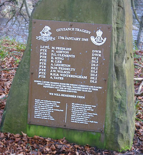 Memorial to the Guyzance Tragedy, near Guyzance, Northumberland, England, UK. On 17 January 1945, ten soldiers drowned while taking part in a military exercise at Guyzance, on the River Coquet, in Northumberland. The river was in full flood and their boat was swept over the weir and capsized. The men, all aged 18, were weighed down by full combat gear and drowned. In 1995, a memorial service was held to mark the 50th anniversary of the tragedy and a plaque was erected, which now stands in the way of a redevelopment.